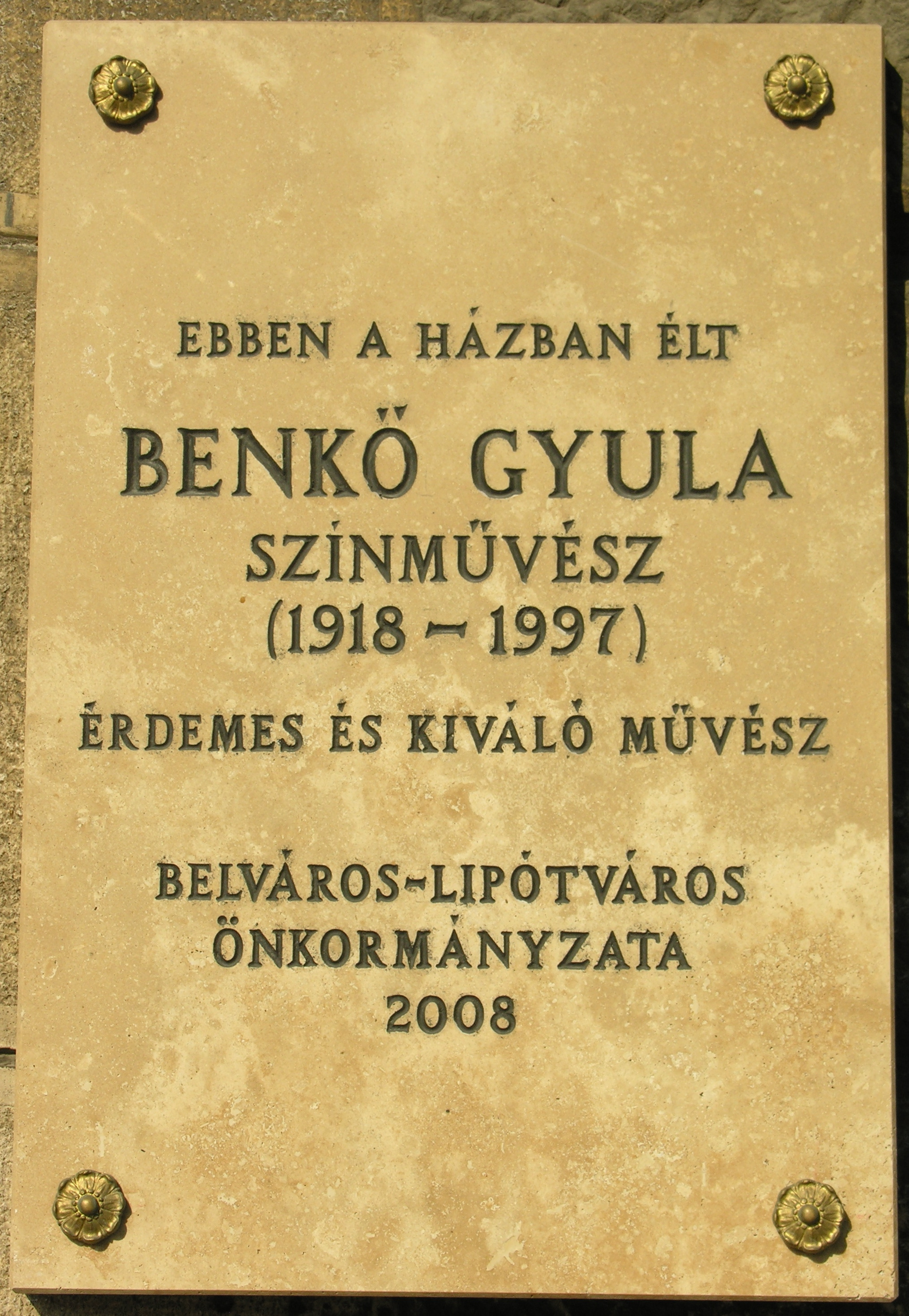 Commemorative plaque of Gyula Benkő in Budapest District V, Belgrád Quay No 17